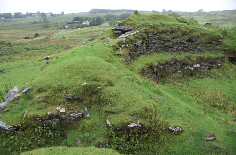 Tirefour Broch, Lismore, Scotland - south west part